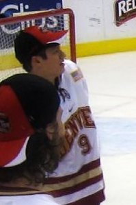 Rhett Rakhshani playing for the Denver Pioneers at the 2008 WCHA Men's Ice Hockey Tournament